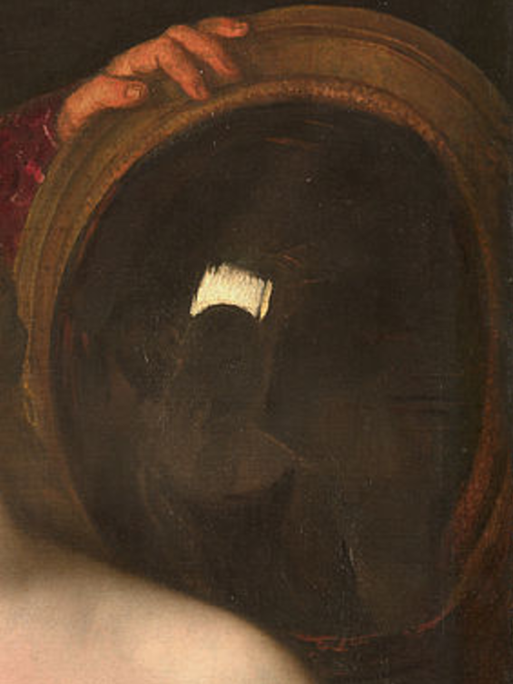 View of the woman's back and the interior of the house